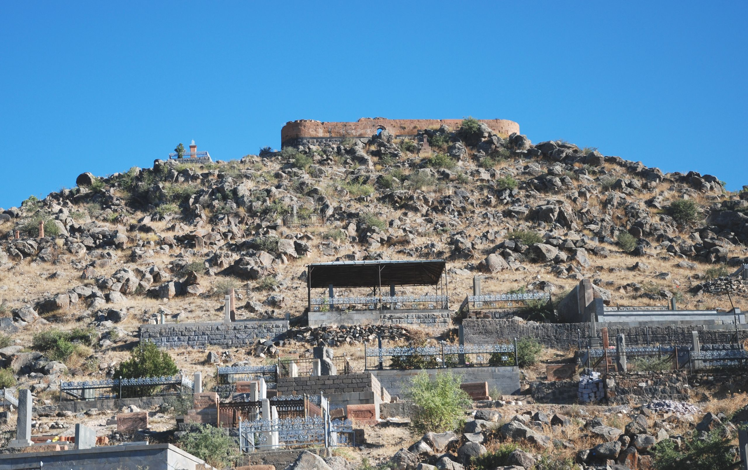 Kosh, medieval castle